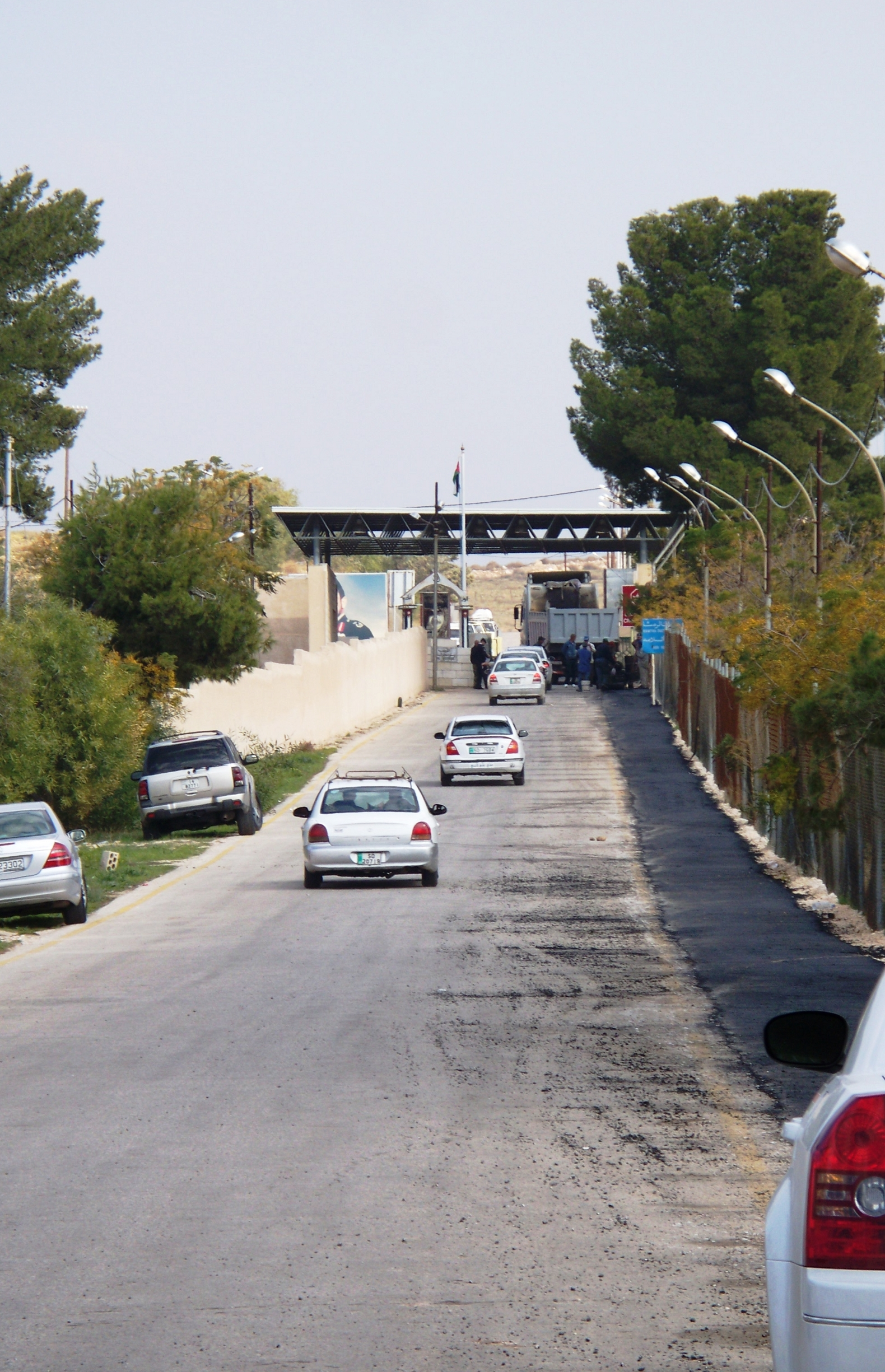 The international border of Jordan and Syria in December 2009.